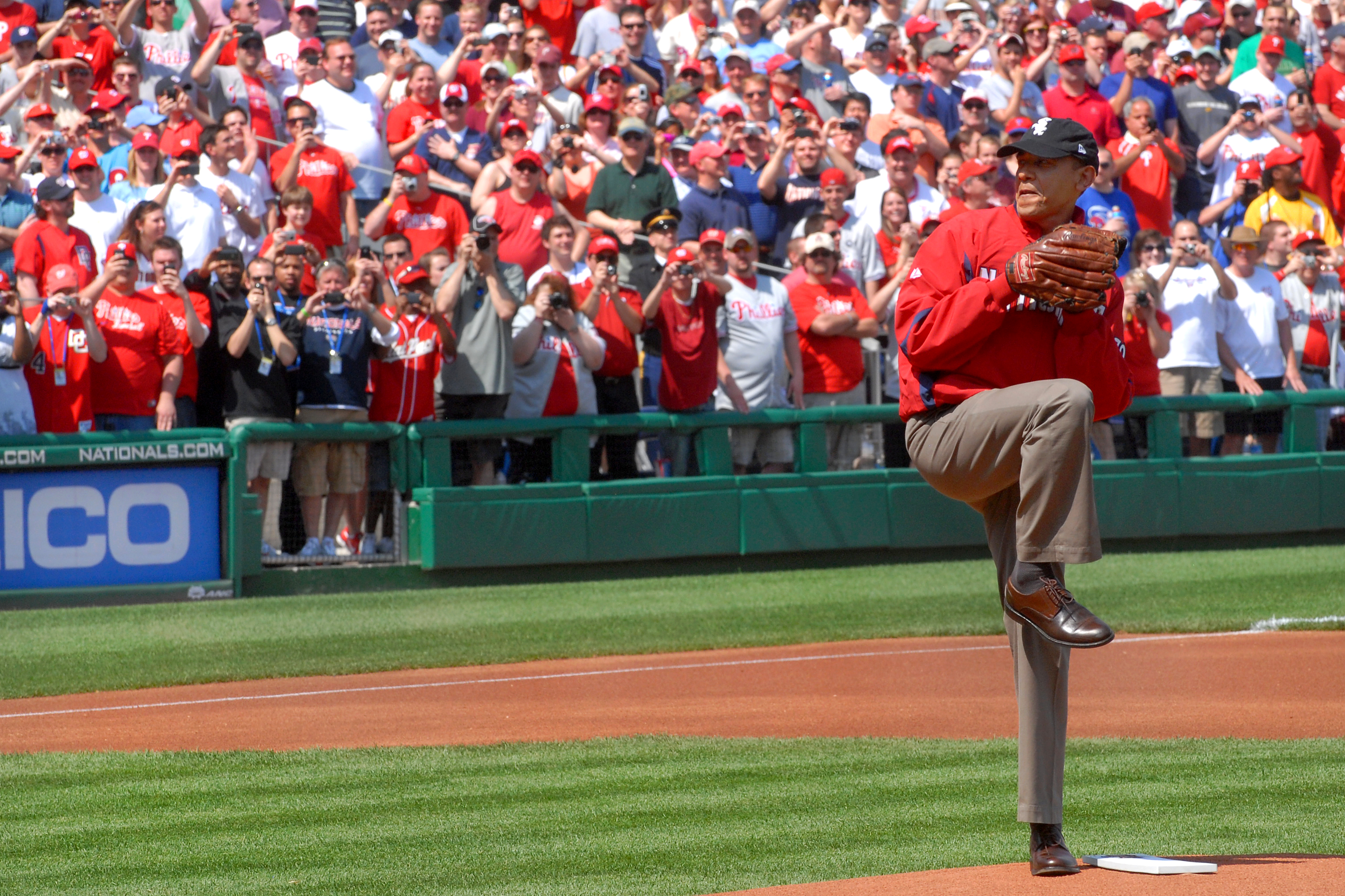 WASHINGTON (April 5, 2010) President Barack Obama throws the ceremonial first pitch to start the baseball season for the Washington Nationals at Nationals Park in Washington D.C. The Nationals honored military children, inviting nine children whose family members are deployed to step onto the infield with the starting players and watch the president throw out the first pitch. The Nationals lost 11-1 to the Philadelphia Phillies. (U.S. Navy photo by Mass Communication Specialist 2nd Class William Selby/Released)